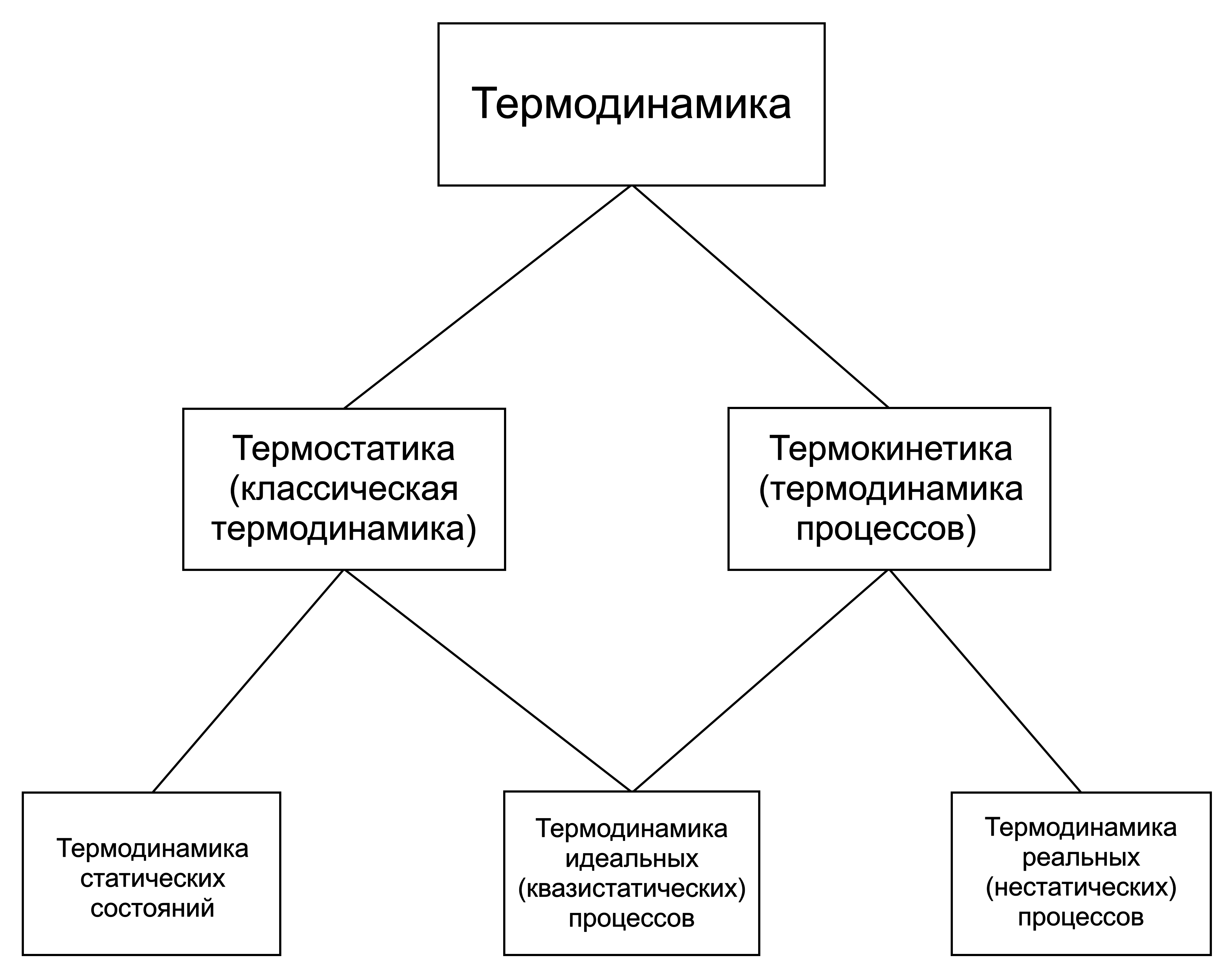 Thermodynamics as a subject of study and teaching